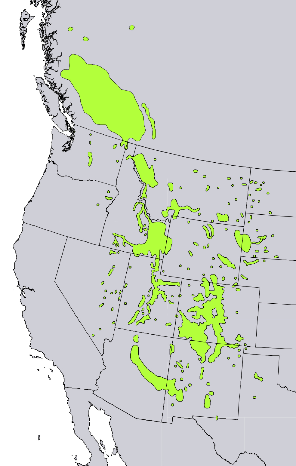 Range map of Juniperus scopulorum